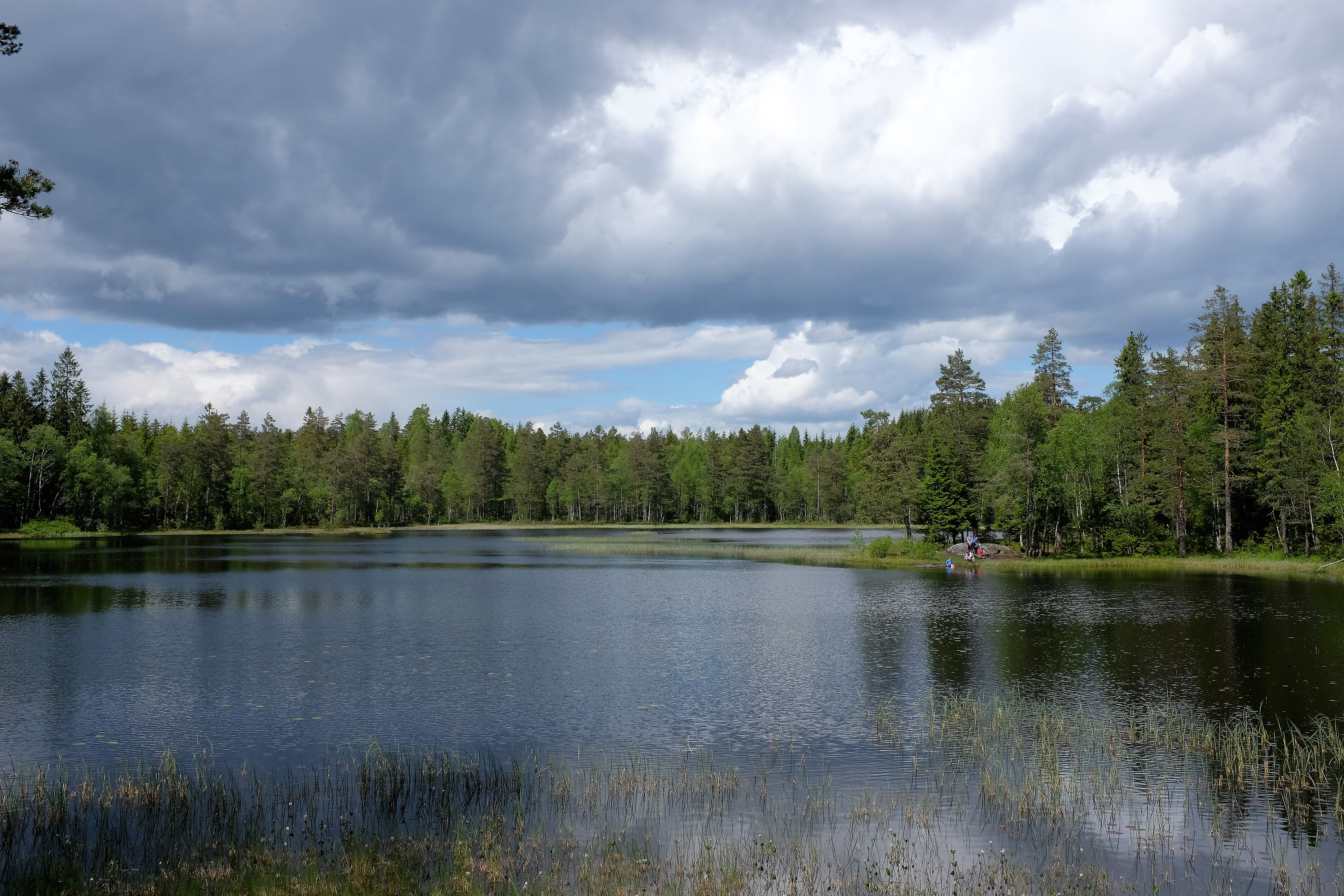 Slattumsrøa Nature Reserve is 1407 acres and is located in Lillomarka south of Nittedal municipality on the border to Oslo. Slattumsrøa has a varied topography with high altitude differences and with hills, ravines and dams within short distances. Five lakes are within the proposed conservation area; Romstjern, Lusevasaen, Bleiktjern, Lomtjern og Setertjern. The proximity to densely populated areas makes the area much used for outdoor and recreation. Source: Norwegian Environment Agency.